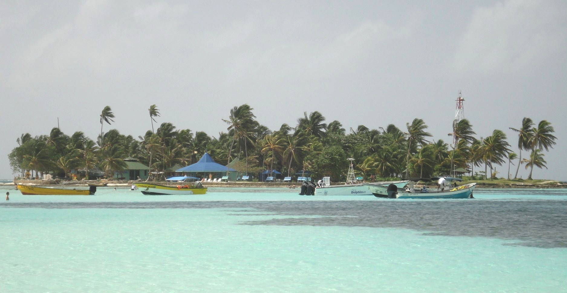 Córdoba Cay (Haynes Cay) from north